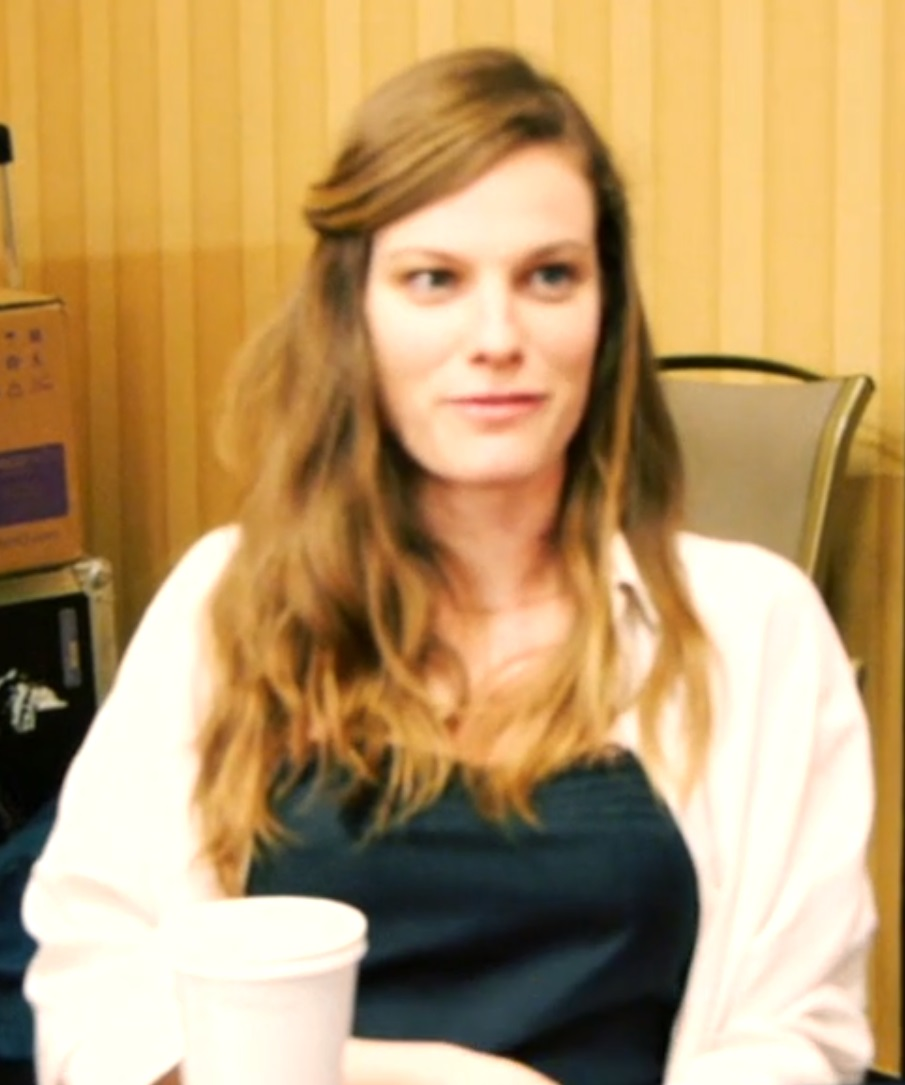 Lindsay Burdge SXSW Film 2013 Interview in Austin, TX with Smells Like Screen Spirit in support of A Teacher.